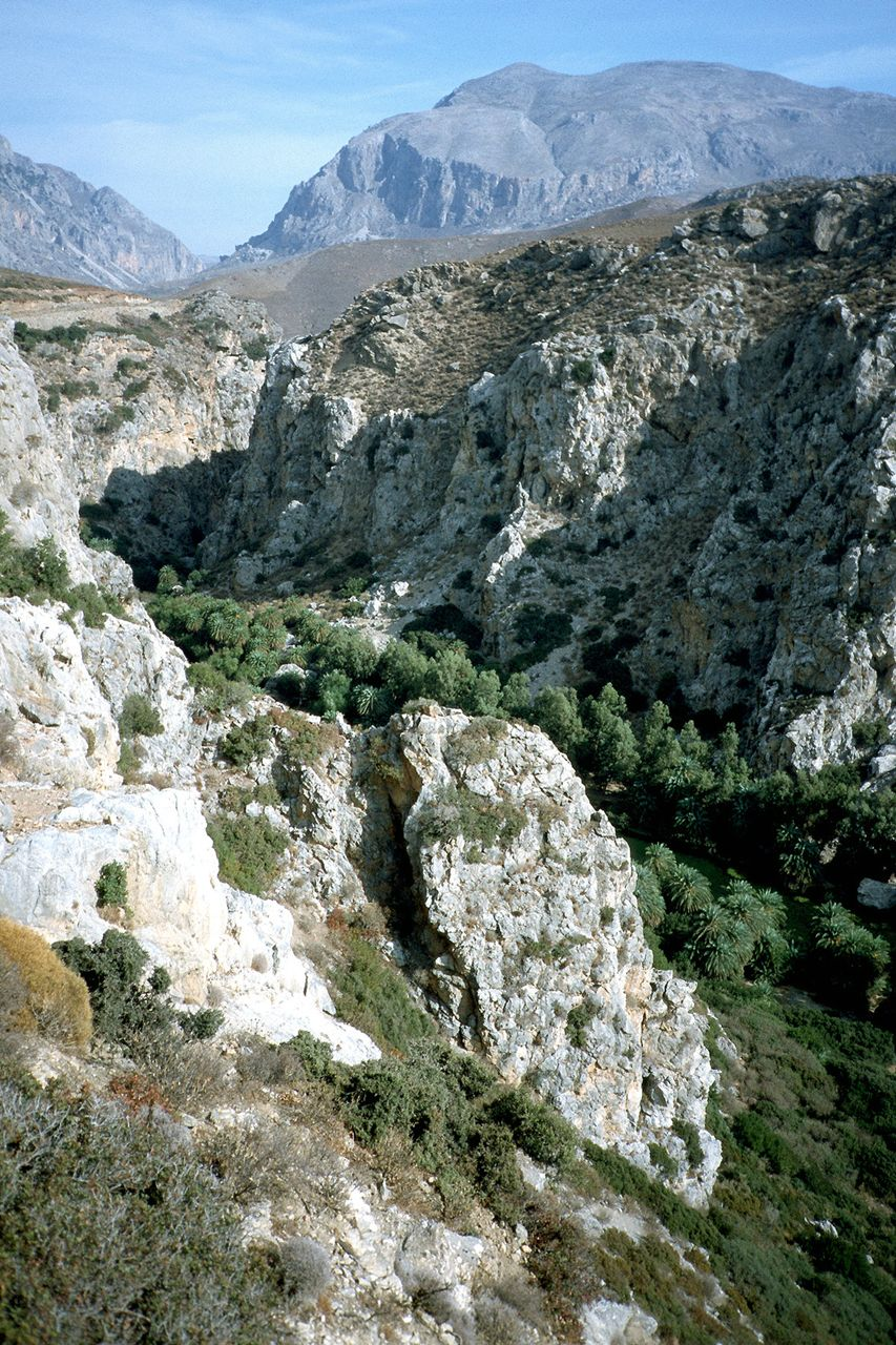 desciption: Kourtaliotiko, gorge source: photo taken by myself date: 2000 photographer: A.Stephan miscellaneous: ...